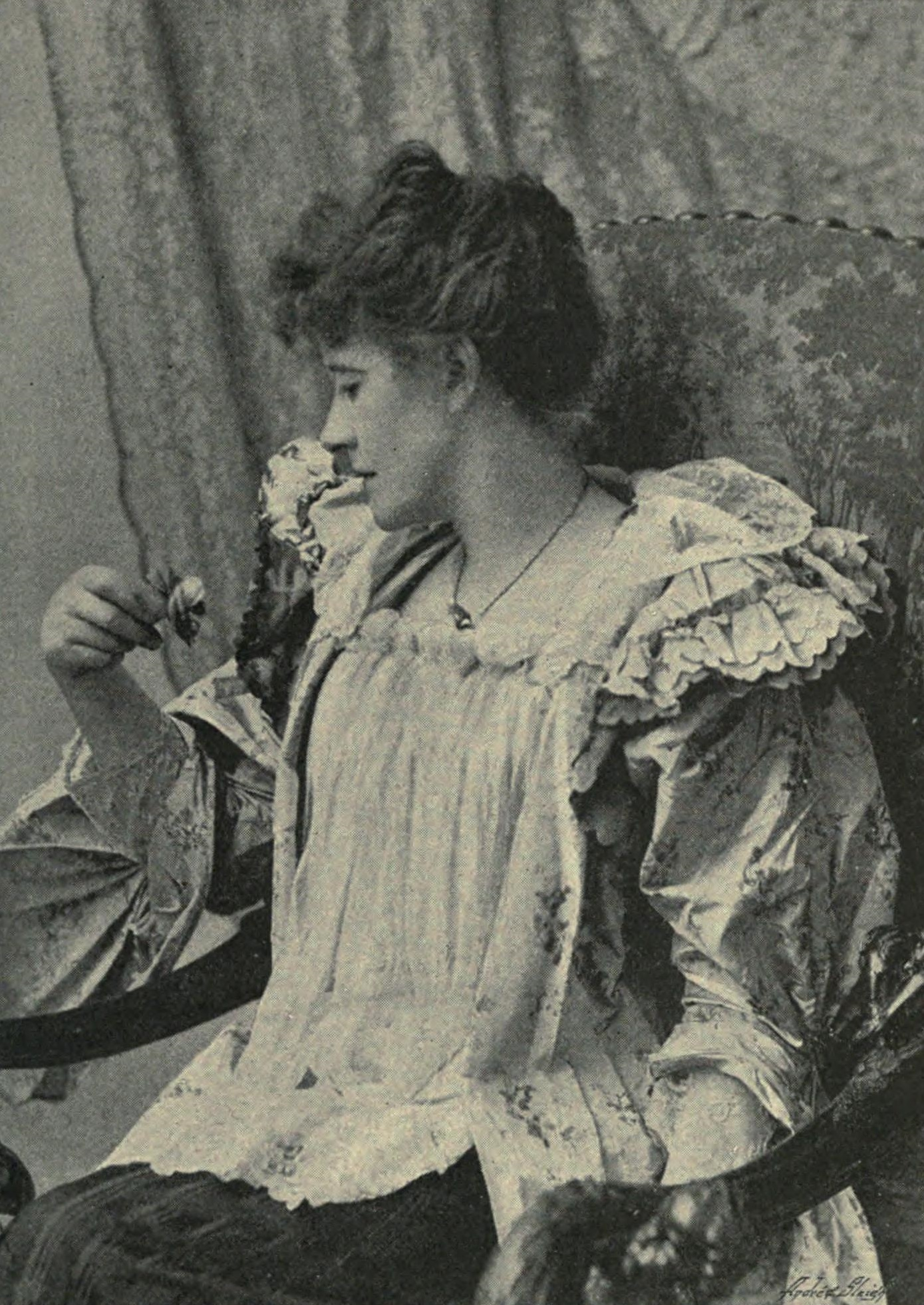 Portrait of Ellen Terry